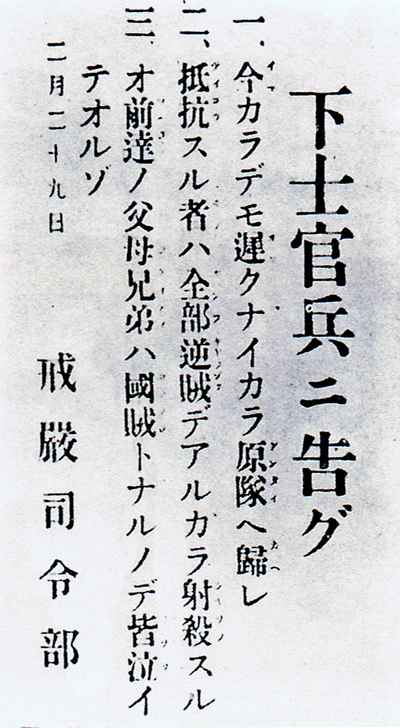 A leaflet recommending surrender to the rebel soldiers following the outbreak of the "February 26 Incident".